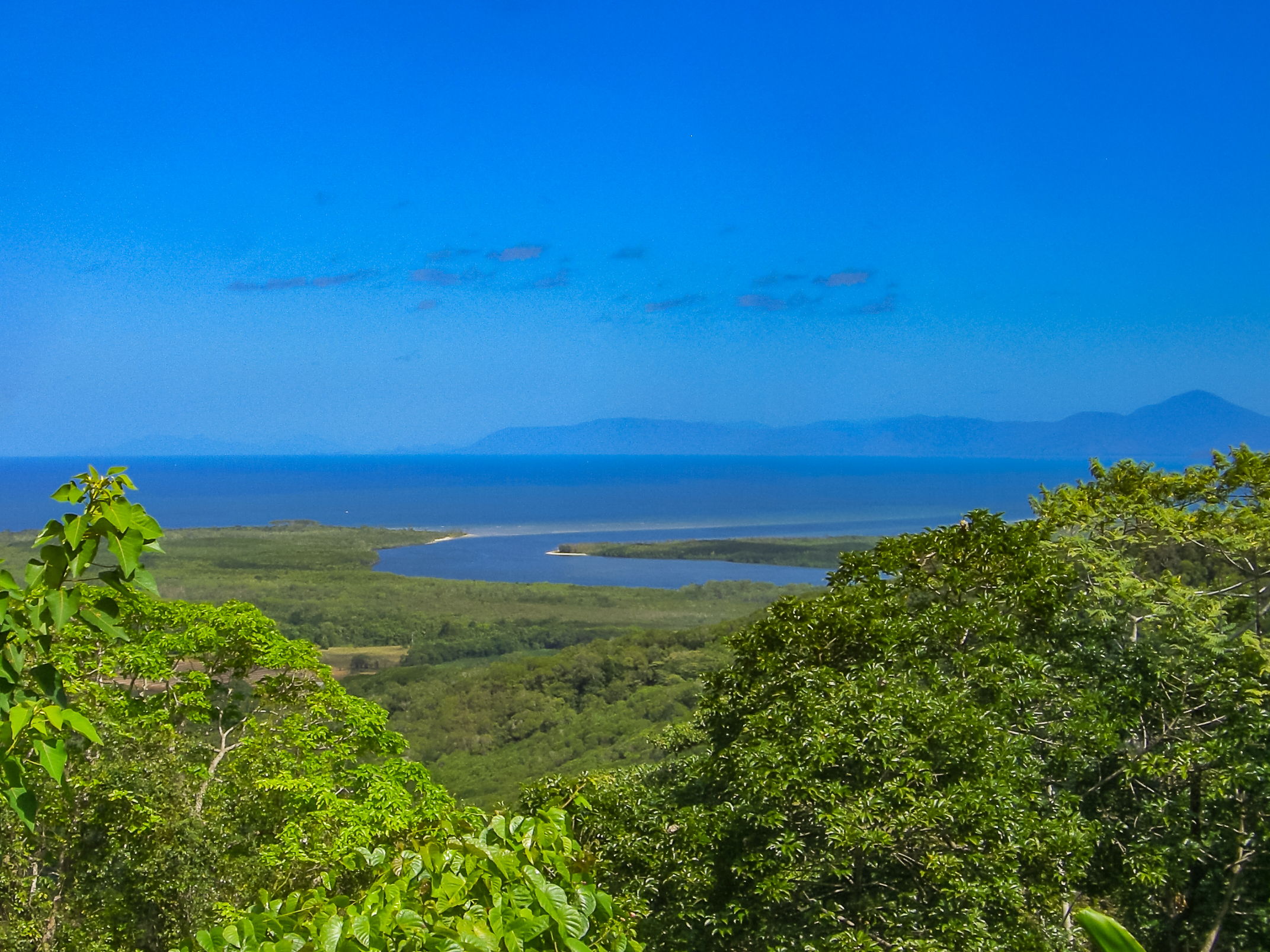 Daintree National Parc Nationalpark, Australien